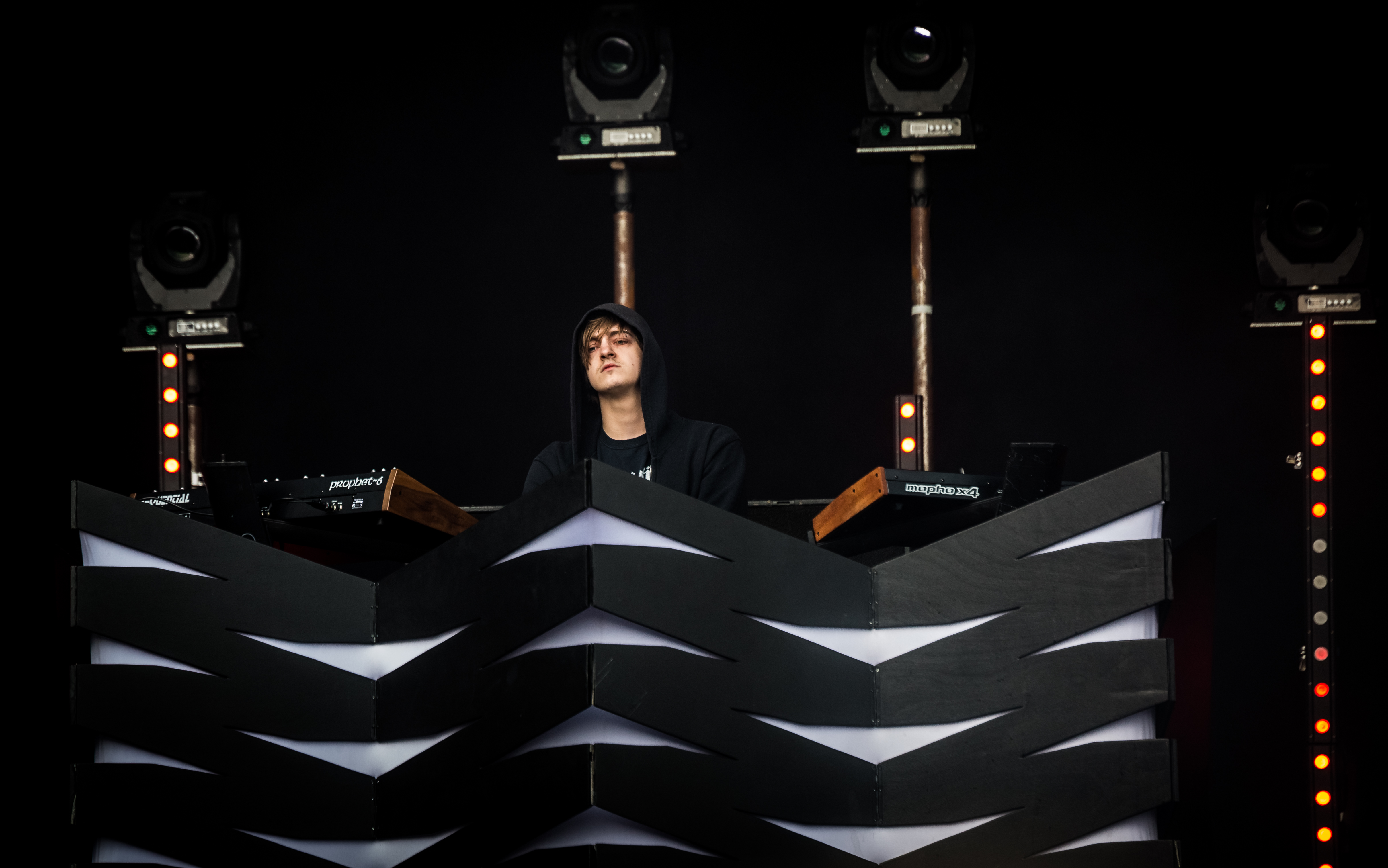 Perturbator - Rock am Ring 2017